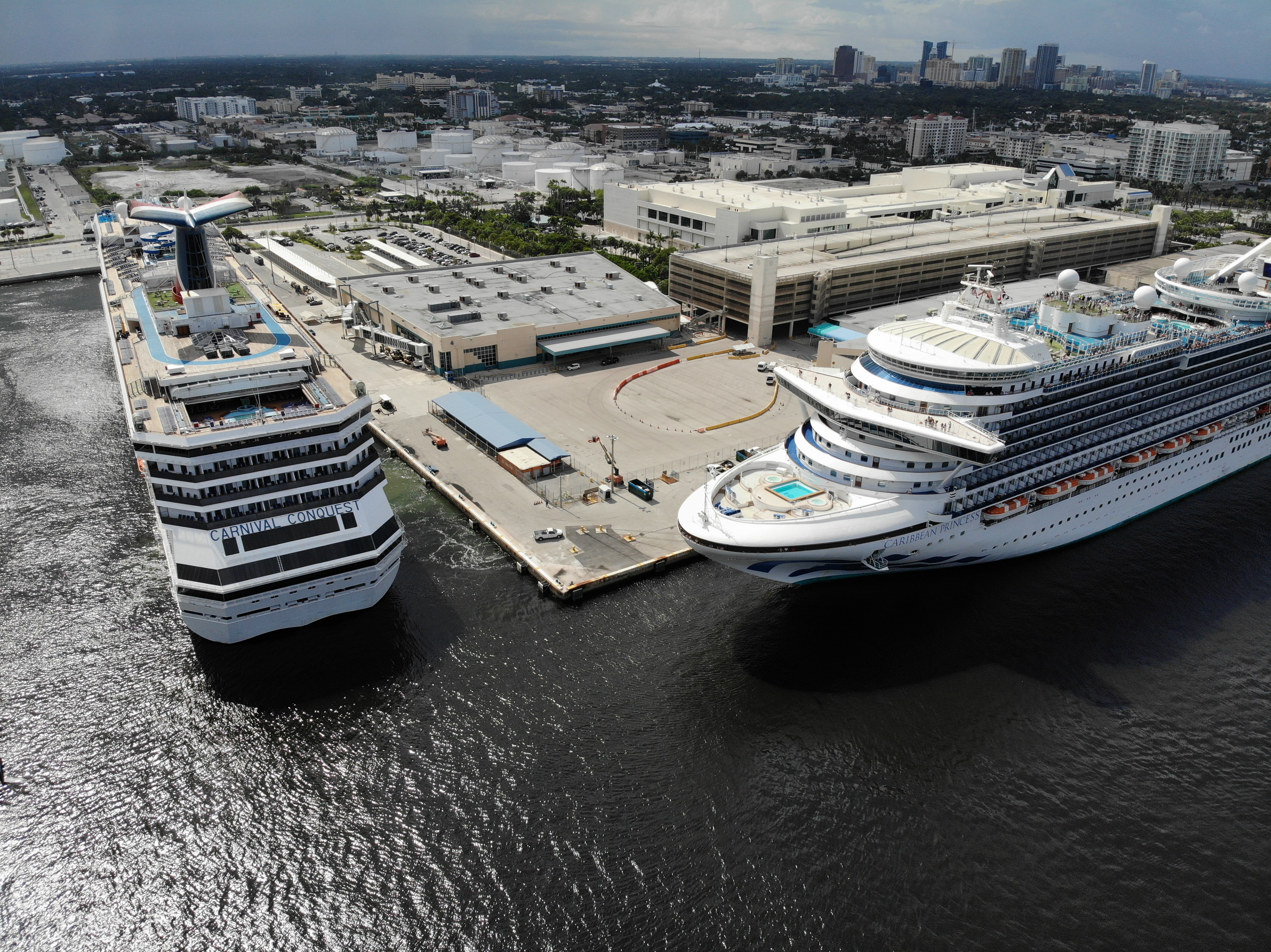 An aerial shot of the stern of the Carnival Conquest and the bow of the Caribbean Princess both docked at Port Everglades.